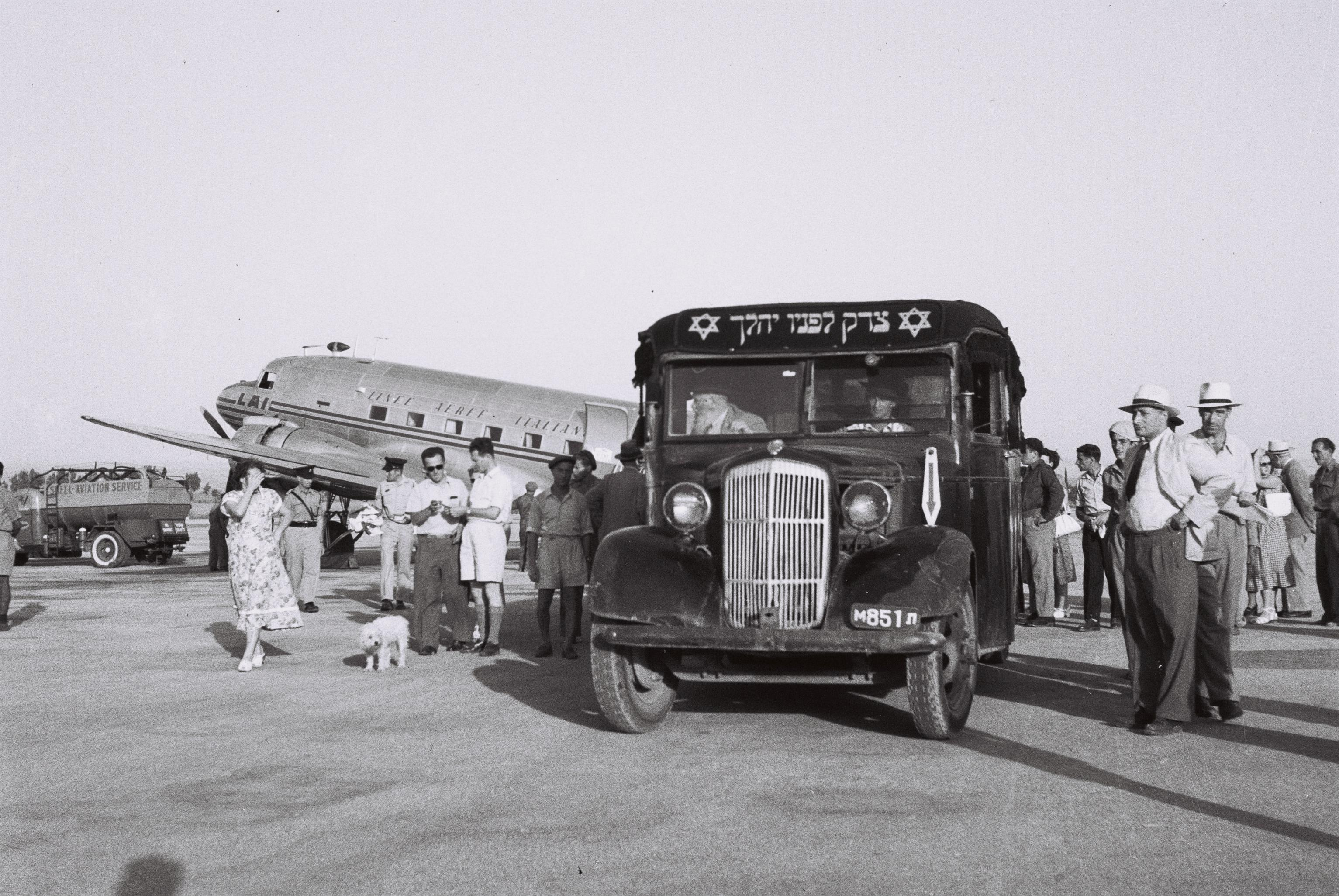 A vehicle of the Hevra Kadisha carrying the ashes of Holocaust victims who were buried in Jerusalem in 1949